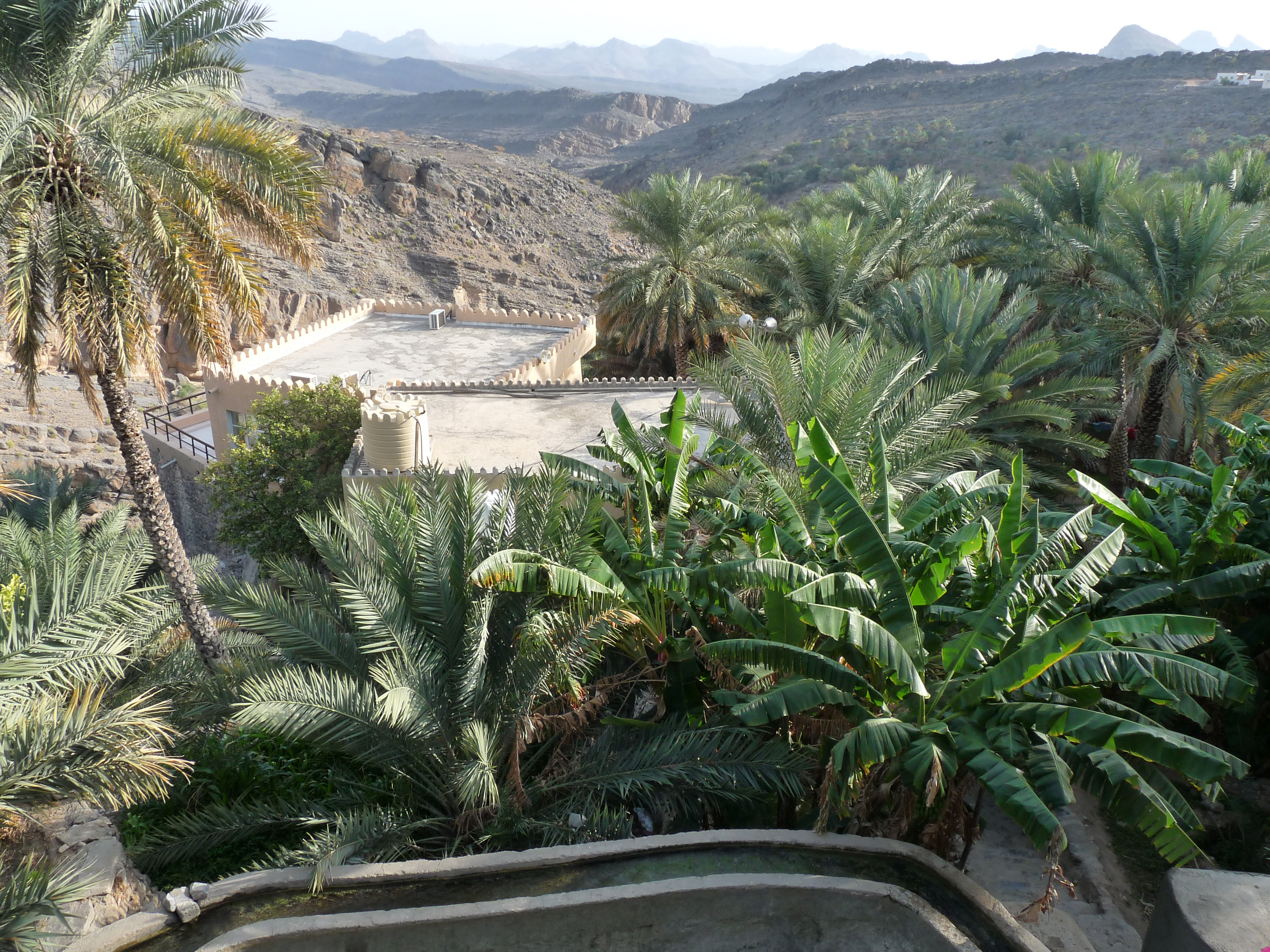 Misfah (Oman)